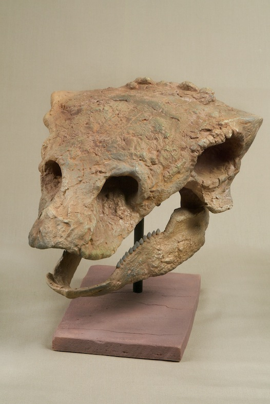 Front view of cast skull of Gastonia (Gastonia burgei) in the permanent collection of The Children’s Museum of Indianapolis